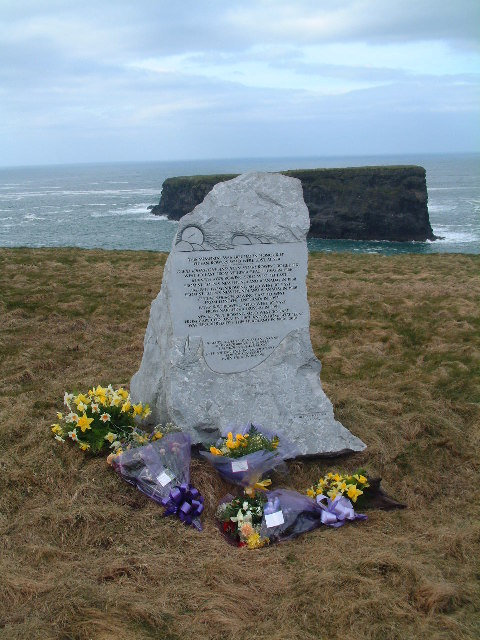 Ocean Rowers Memorial. Memorial erected in honour of Transatlantic Ocean Rowers who were lost at sea.